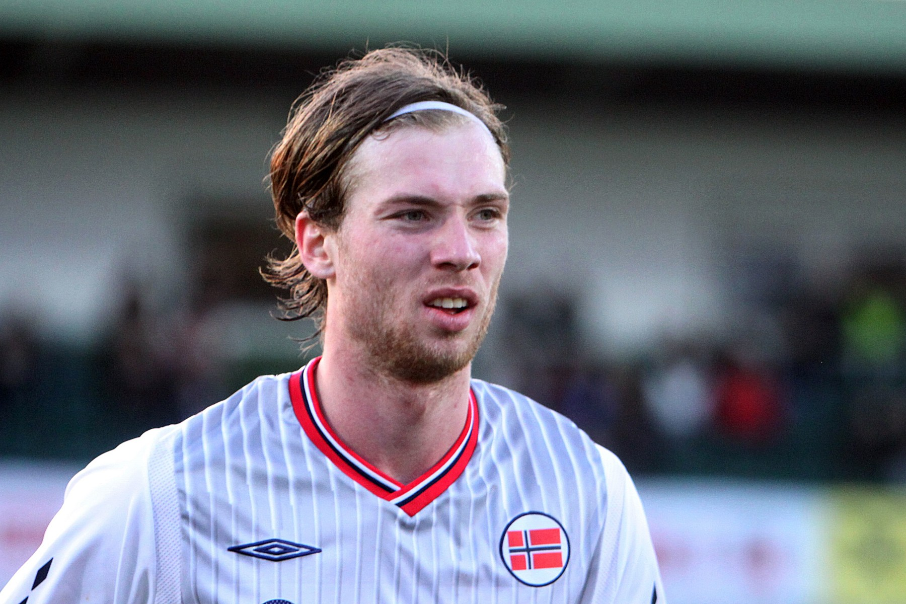 Jo Inge Berget (Strømsgodset IF) in the Norway national under-21 football team, 2011-03-29